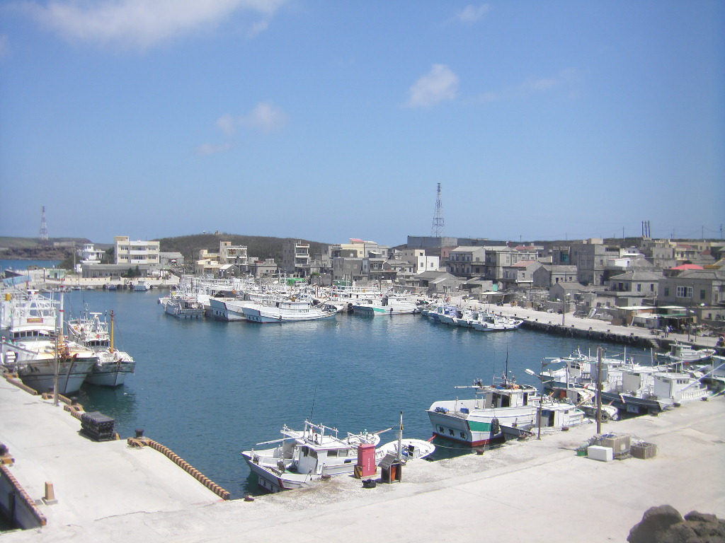 The fish port of Jiangjyun South Port, Jiangjyun Village in Wangan Township, Penghu, Taiwan